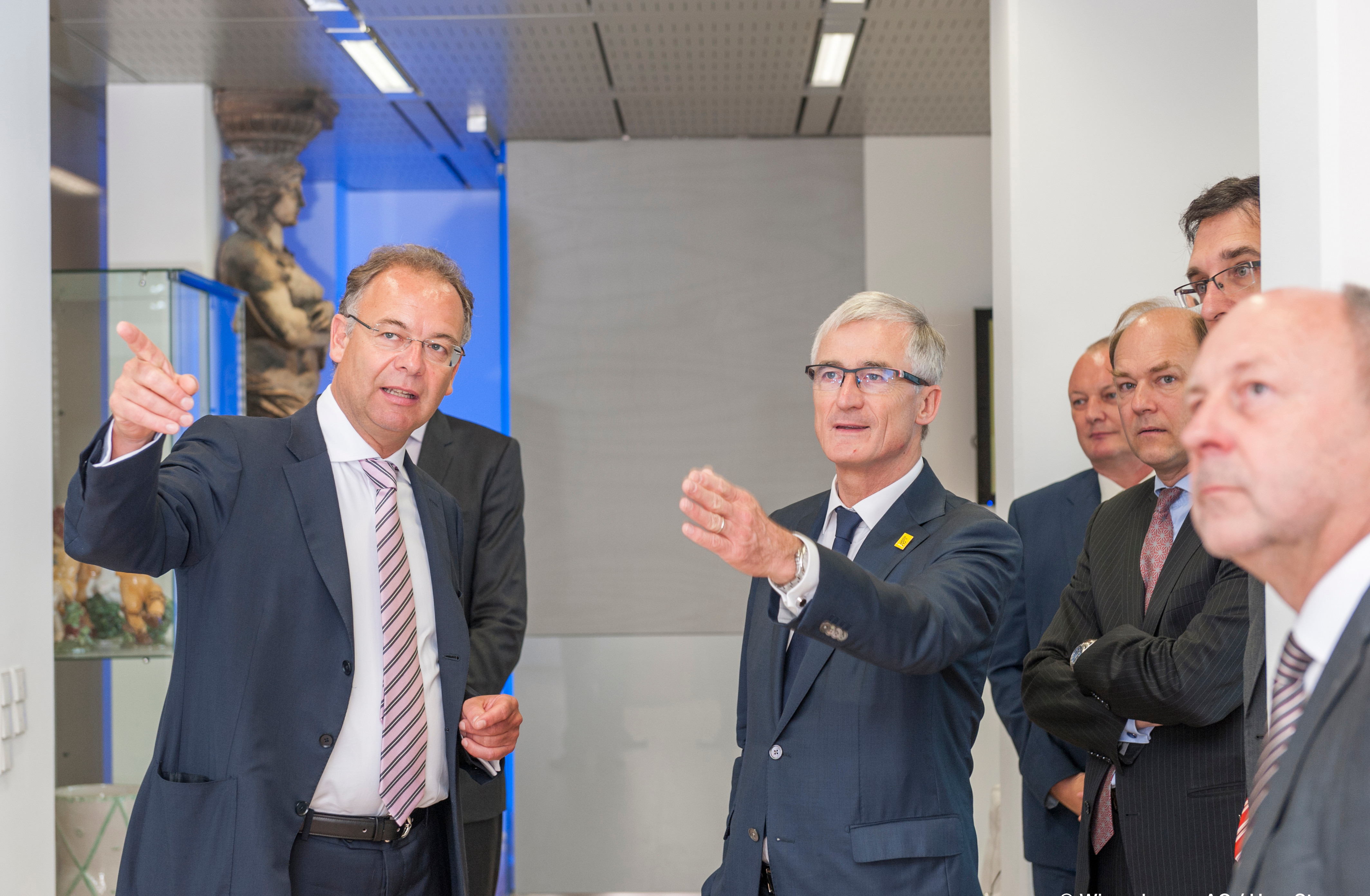 Minister President Geert Bourgeois visiting Heimo Scheuch at Wienerberger Headquarters in Vienna